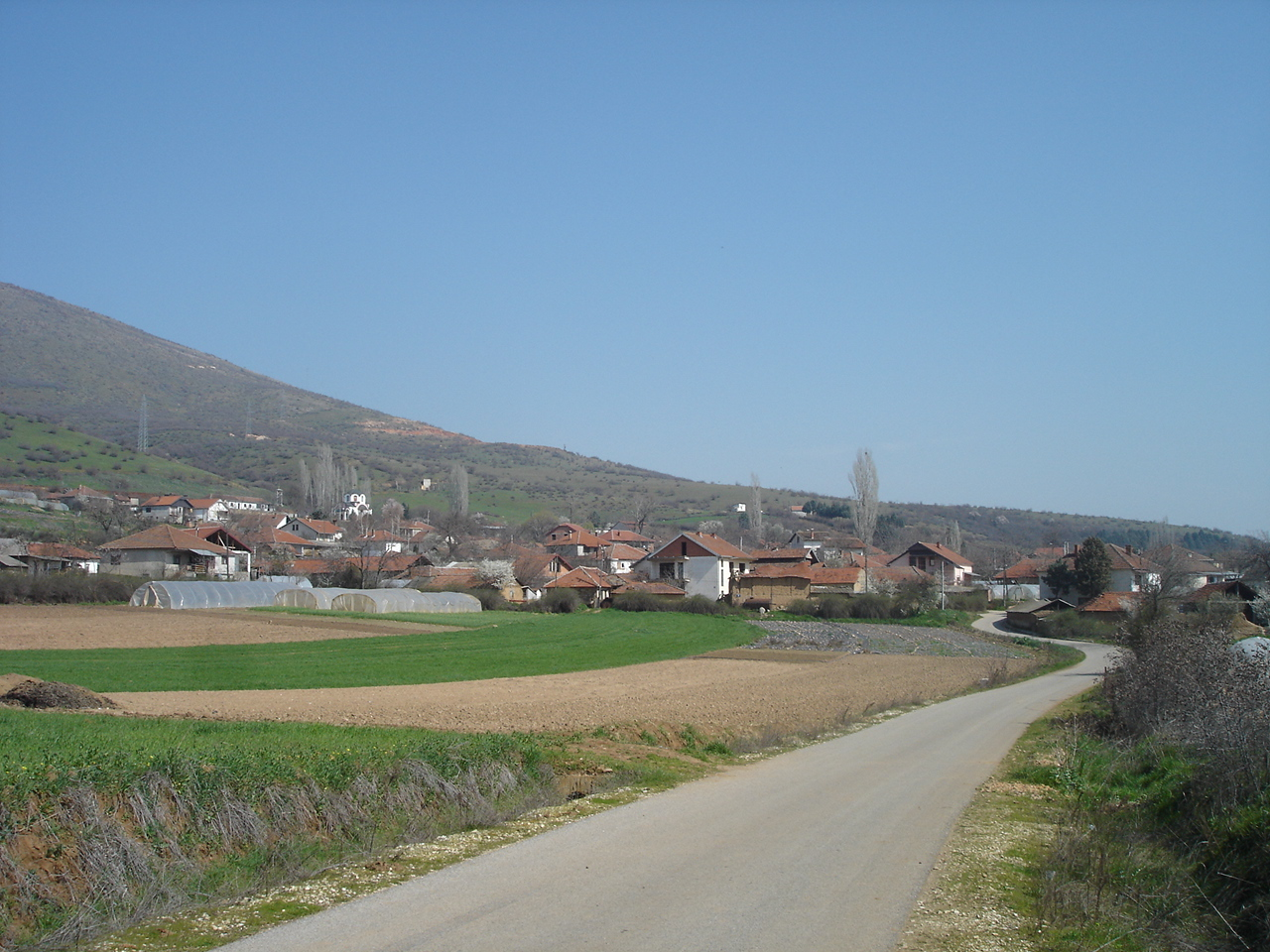 village of Brnjarci, near Skopje, Macedonia